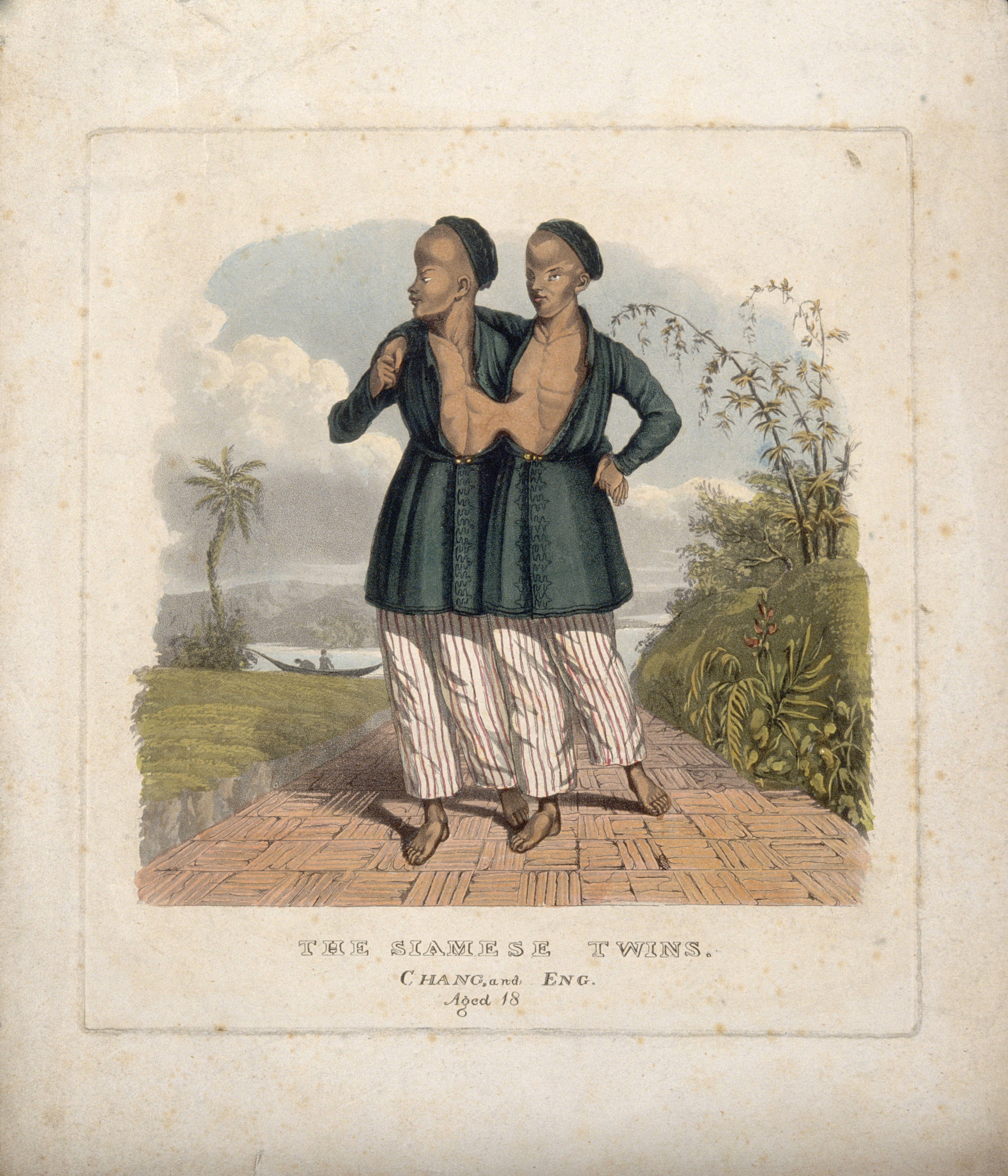 Chang and Eng the Siamese twins, aged 18, in an oriental landscape. Coloured aquatint. Iconographic Collections Keywords: Chang and Eng Bunker; portrait prints; siamese twins; bunker, chang and eng; birth defects; aquatints